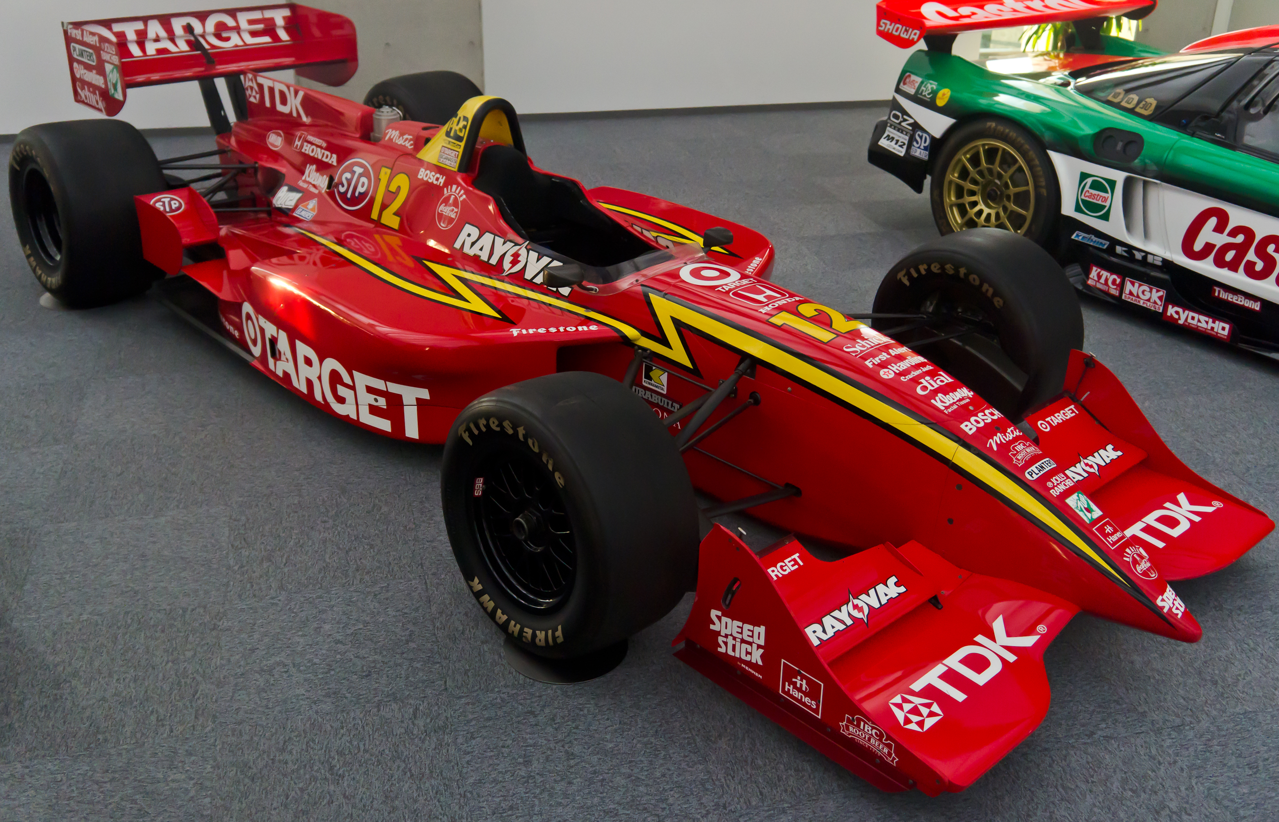 1996 Reynard 96I (#12 Jimmy Vasser, Chip Ganassi Racing)